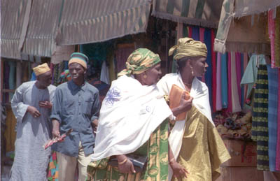 Market in Dakar.